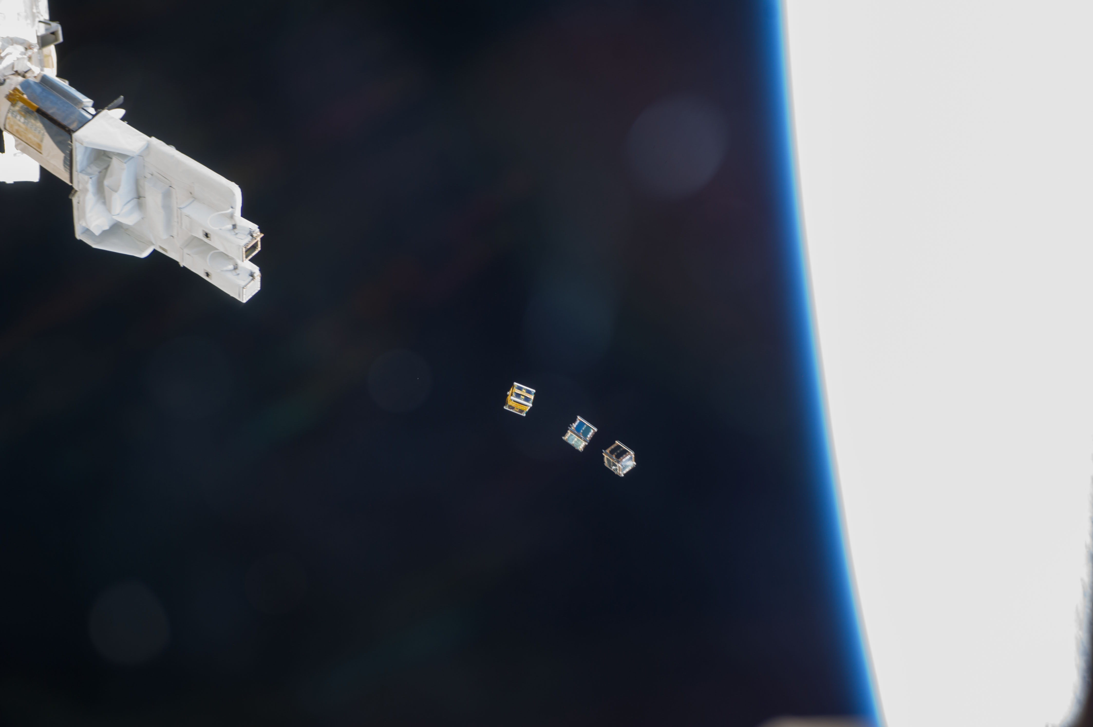 Three nanosatellites, known as Cubesats, are deployed from a Small Satellite Orbital Deployer (SSOD) attached to the Kibo laboratory's robotic arm at 7:10 a.m. (EST) on Nov. 19, 2013. Japan Aerospace Exploration Agency astronaut Koichi Wakata, Expedition 38 flight engineer, monitored the satellite deployment while operating the Japanese robotic arm from inside Kibo. The Cubesats were delivered to the International Space Station Aug. 9, aboard Japan's fourth H-II Transfer Vehicle, Kounotori-4.